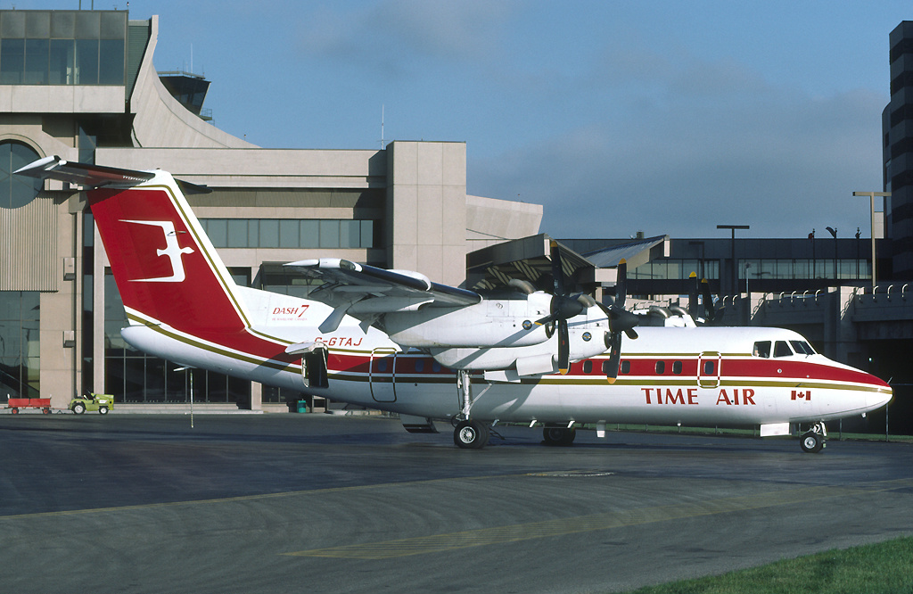 Time Air Dash 7 at Calgary Airport